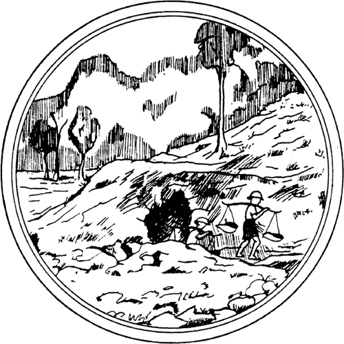 Provincial seal of Yala province.